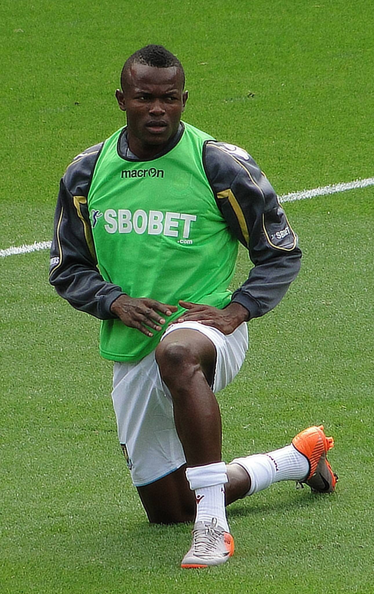 West Ham player Victor Obinna warming-up before his West Ham debut game on 11 September 2010 against Chelsea at Upton Park